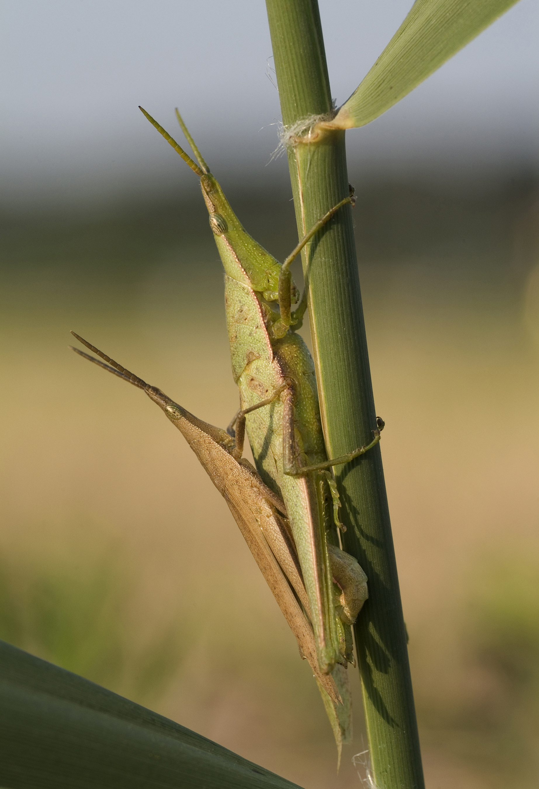 Smaller longheaded locust, Mating